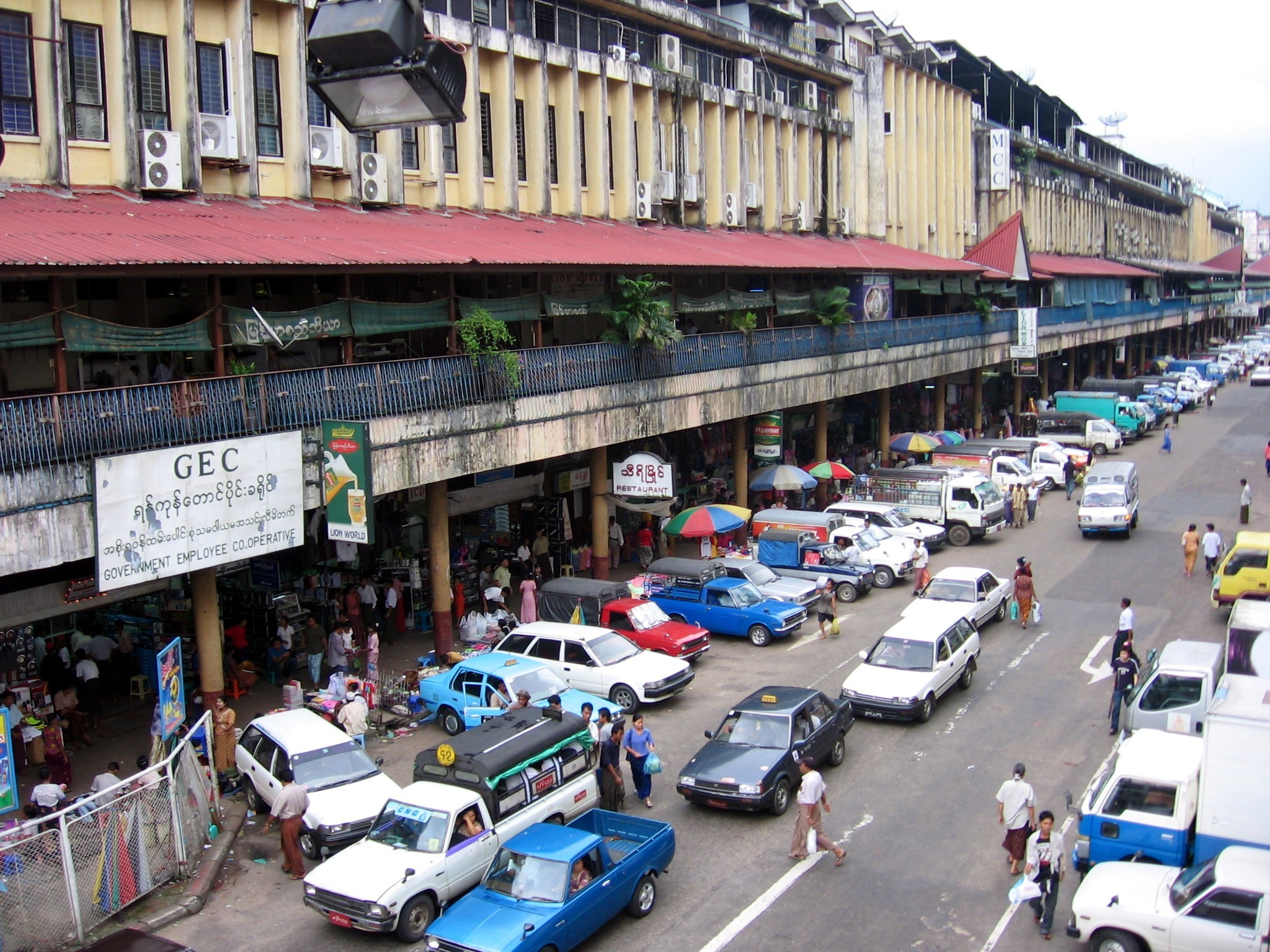 Streets of Yangon, Myanmar.